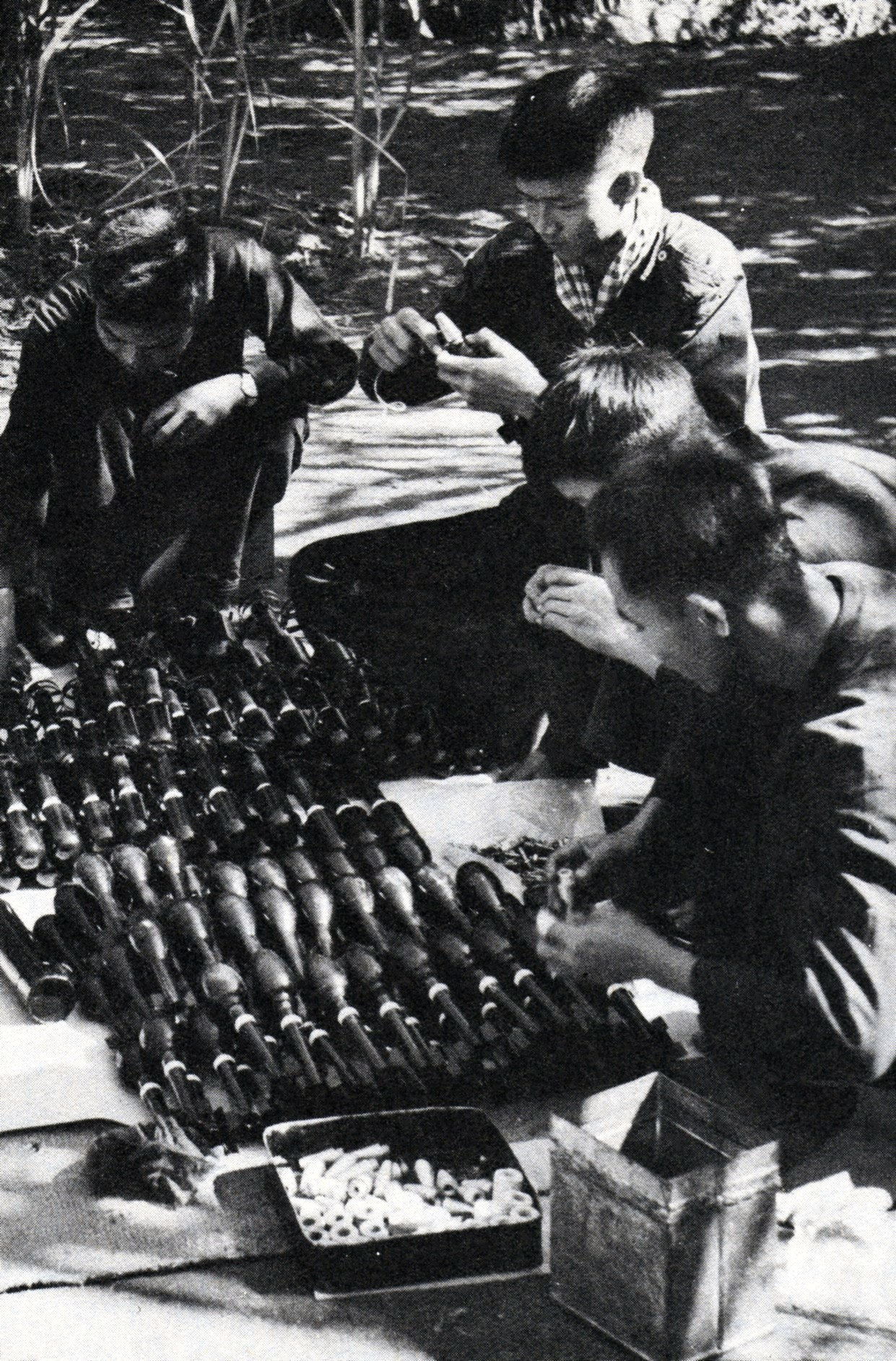 Guerillas assamble shells and rockets delivered along the Ho Chi Minh Trail. Captured Vietcong's photo.